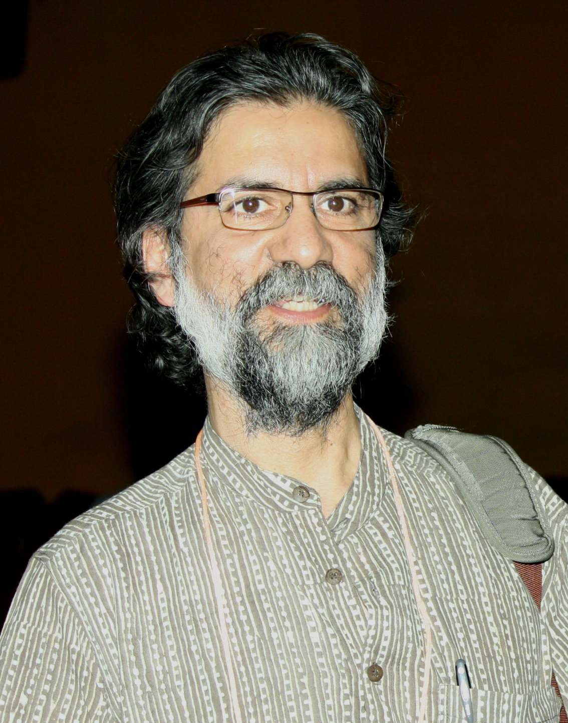 Sanjay Kak, Indian documentary filmmaker This media file is uploaded with Malayalam loves Wikimedia event - 2.